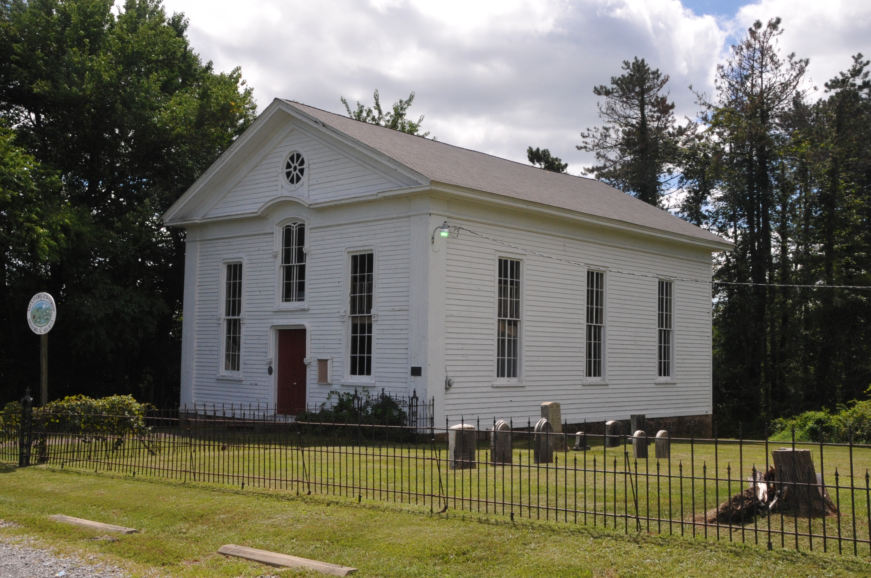 BUILT IN 1864 BY A CONGREGATION ORGANIZED IN 1836. IT IS NOW USED AS THE ALEXANDRIA TOWNSHIP HISTORICAL MUSEUM